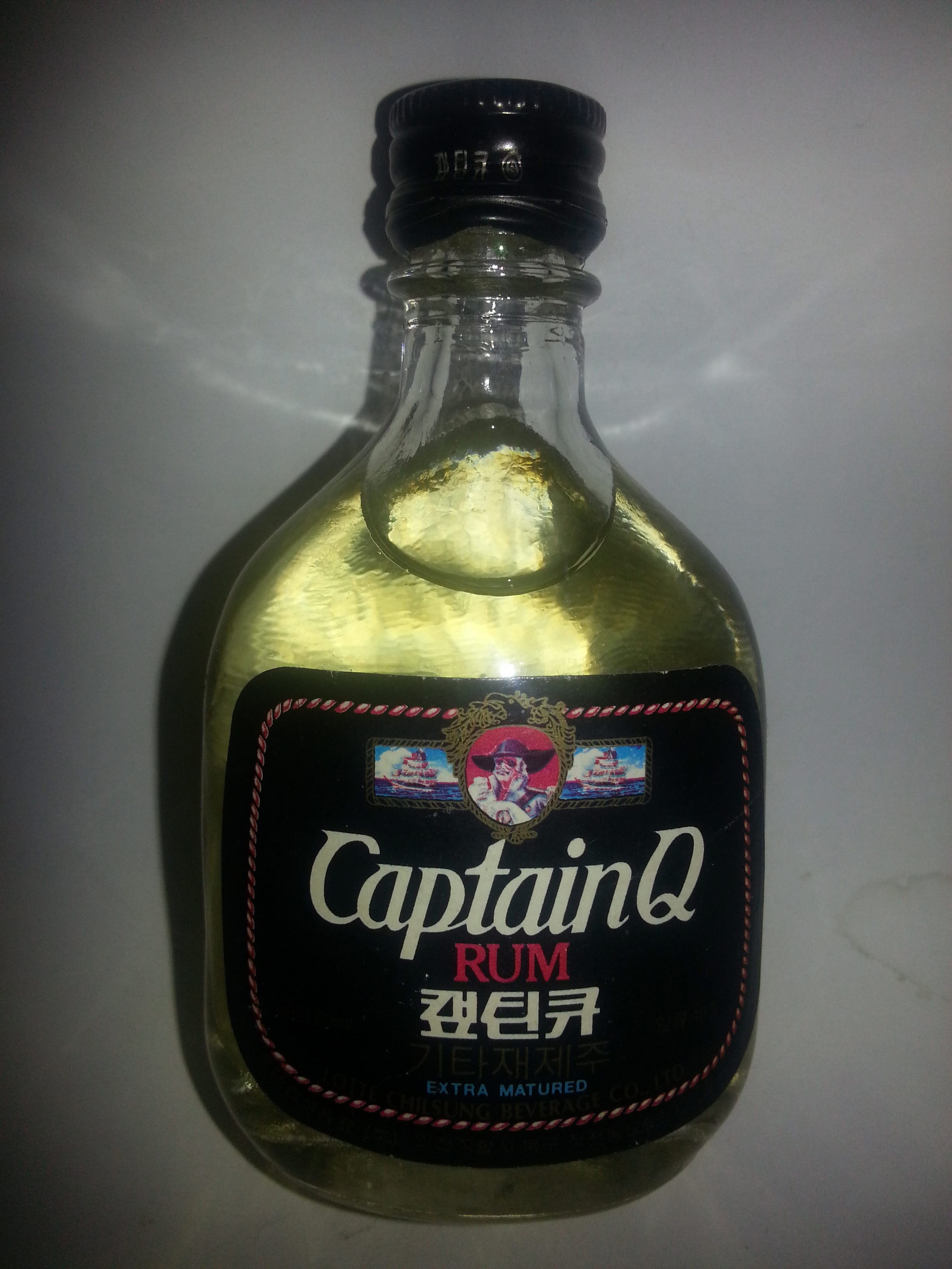 Lotte CaptainQ(1980's-Early 1990's)